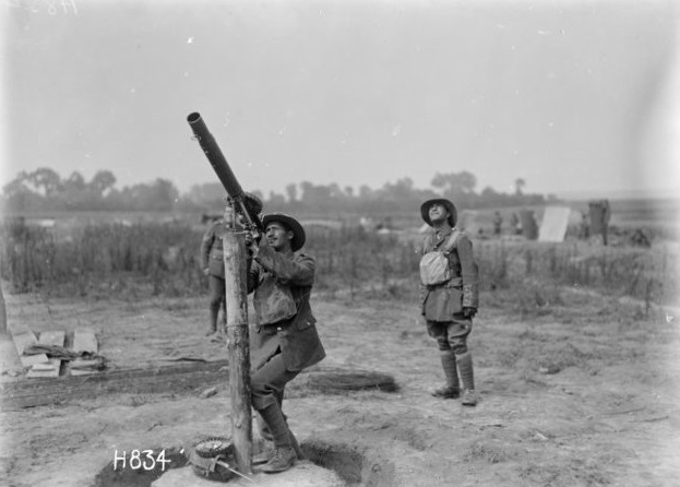 Soldiers on the anti-aircraft guard of the New Zealand Pioneer Maori Battalion camp, Bayencourt, France. Royal New Zealand Returned and Services' Association :New Zealand official negatives, World War 1914-1918. Ref: 1/2-013417-G. Alexander Turnbull Library, Wellington, New Zealand.